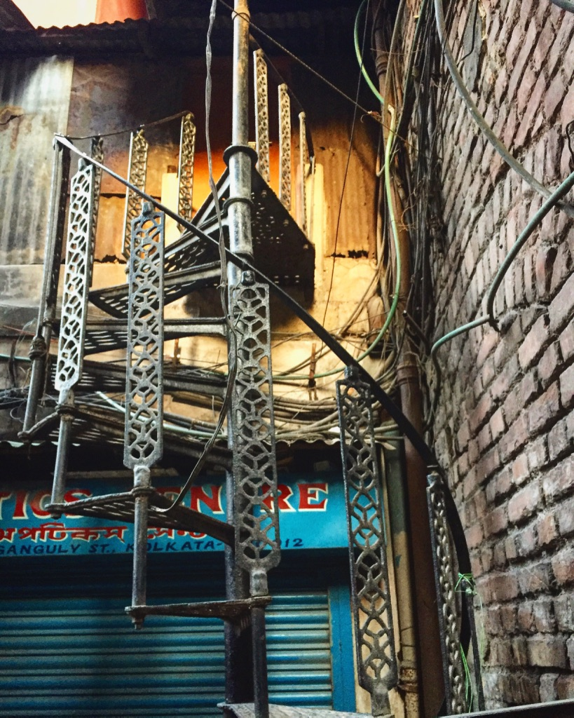 Spiral Staircase